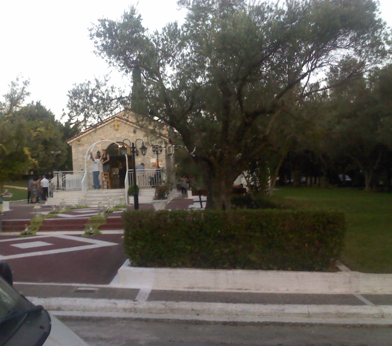 Agia Dinami Spata